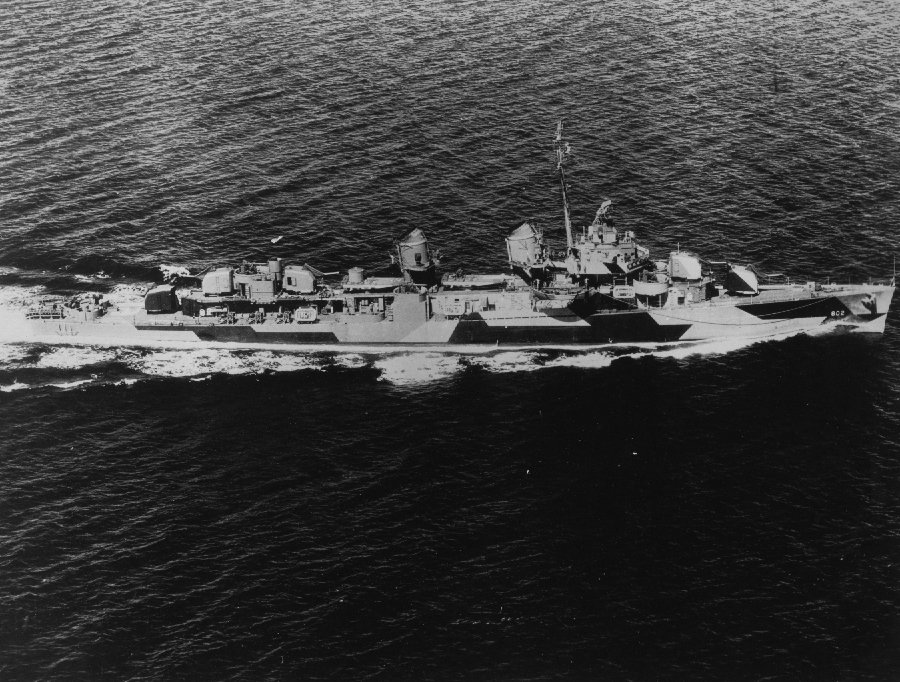 The U.S. Navy destroyer USS Gregory (DD-802) underway in Puget Sound, Washington (USA), on 11 August 1944. The ship is painted in Camouflage Measure 31, Design 11D.